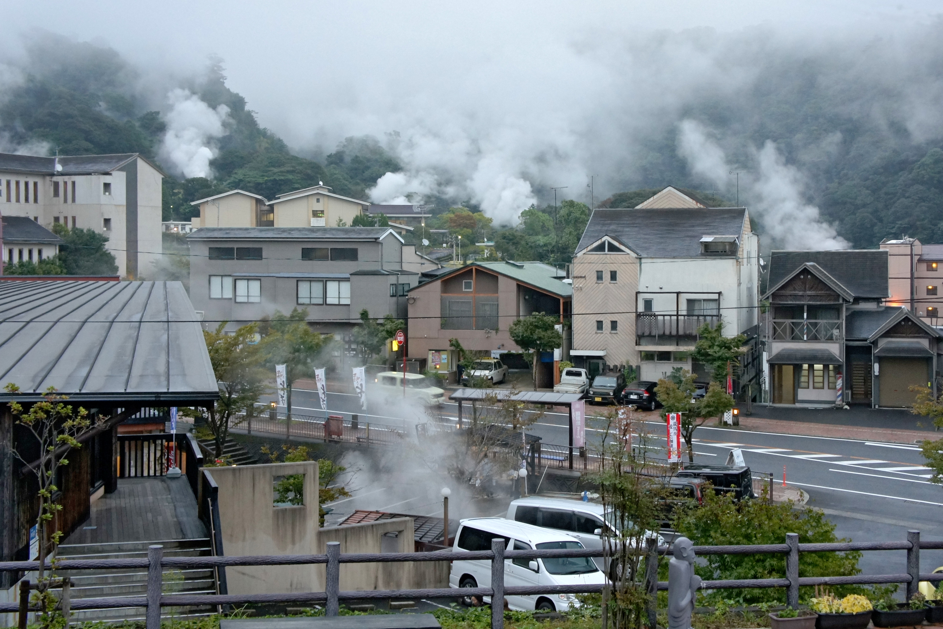 Maruo Onsen of Kirishima Onsens in Kirishima, Kagoshima prefecture, Japan.